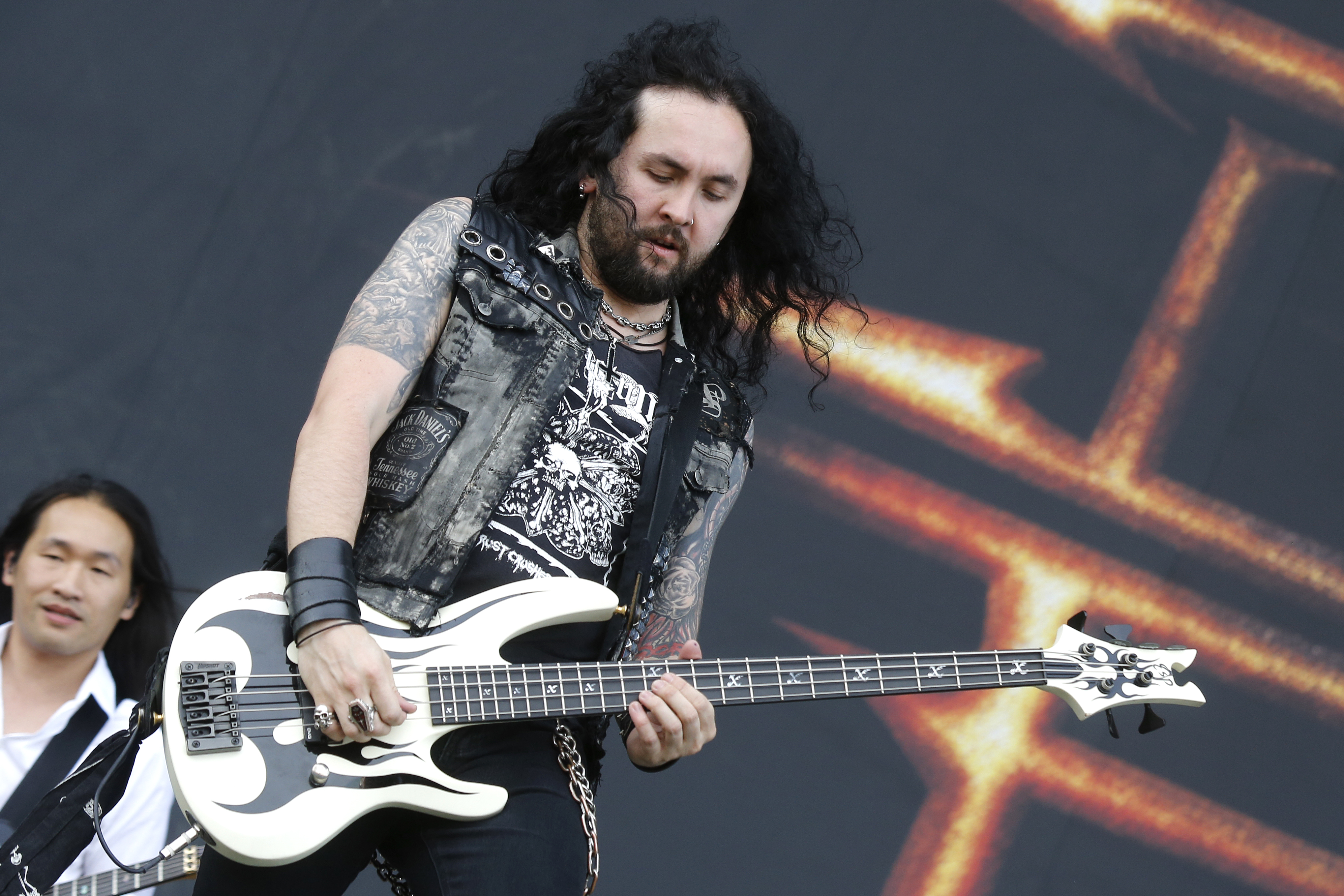 Frédéric Leclercq bassist of DragonForce at Nova Rock-Festival 2013.